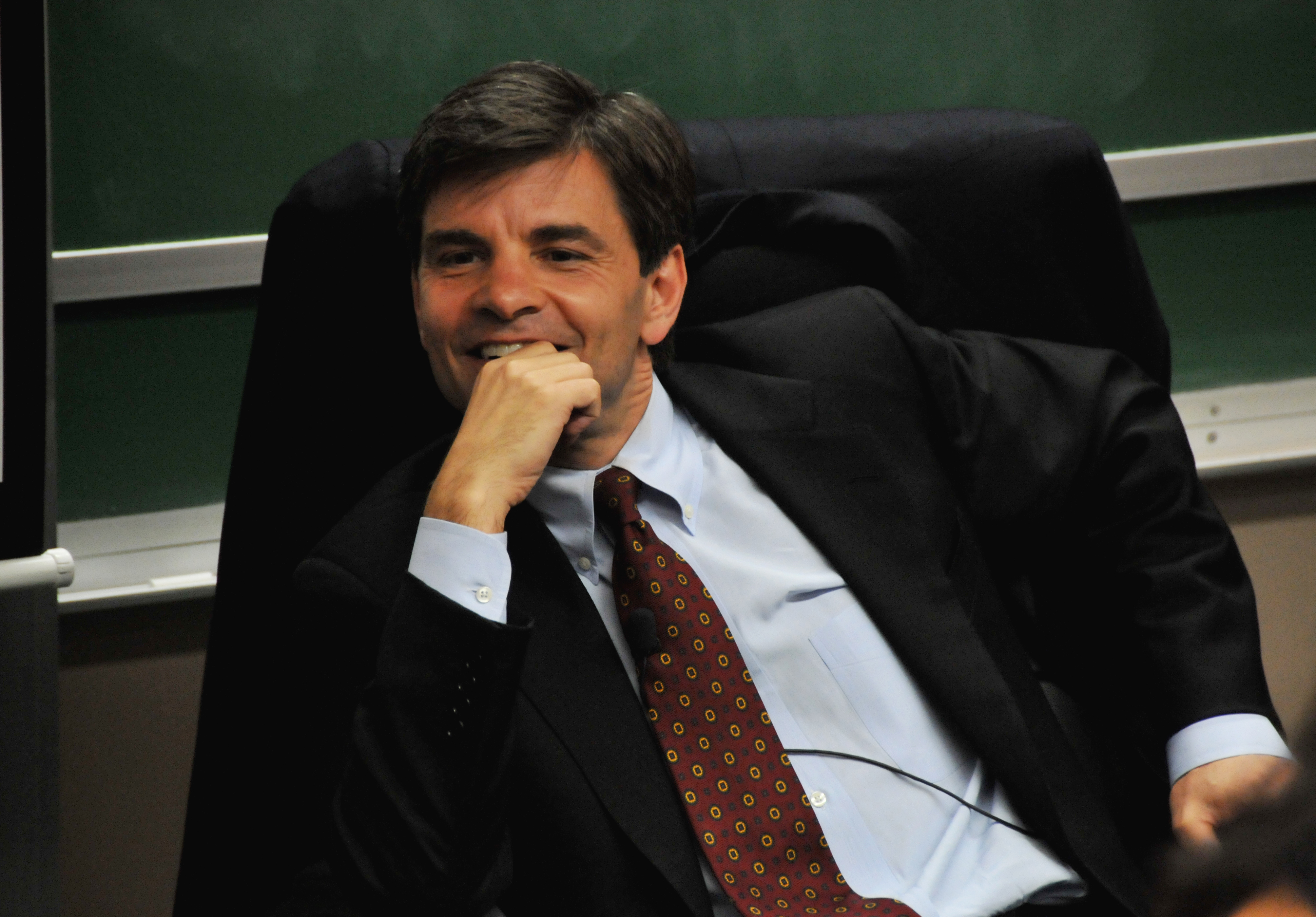 American television journalist and a former political advisor pictured in April 2009